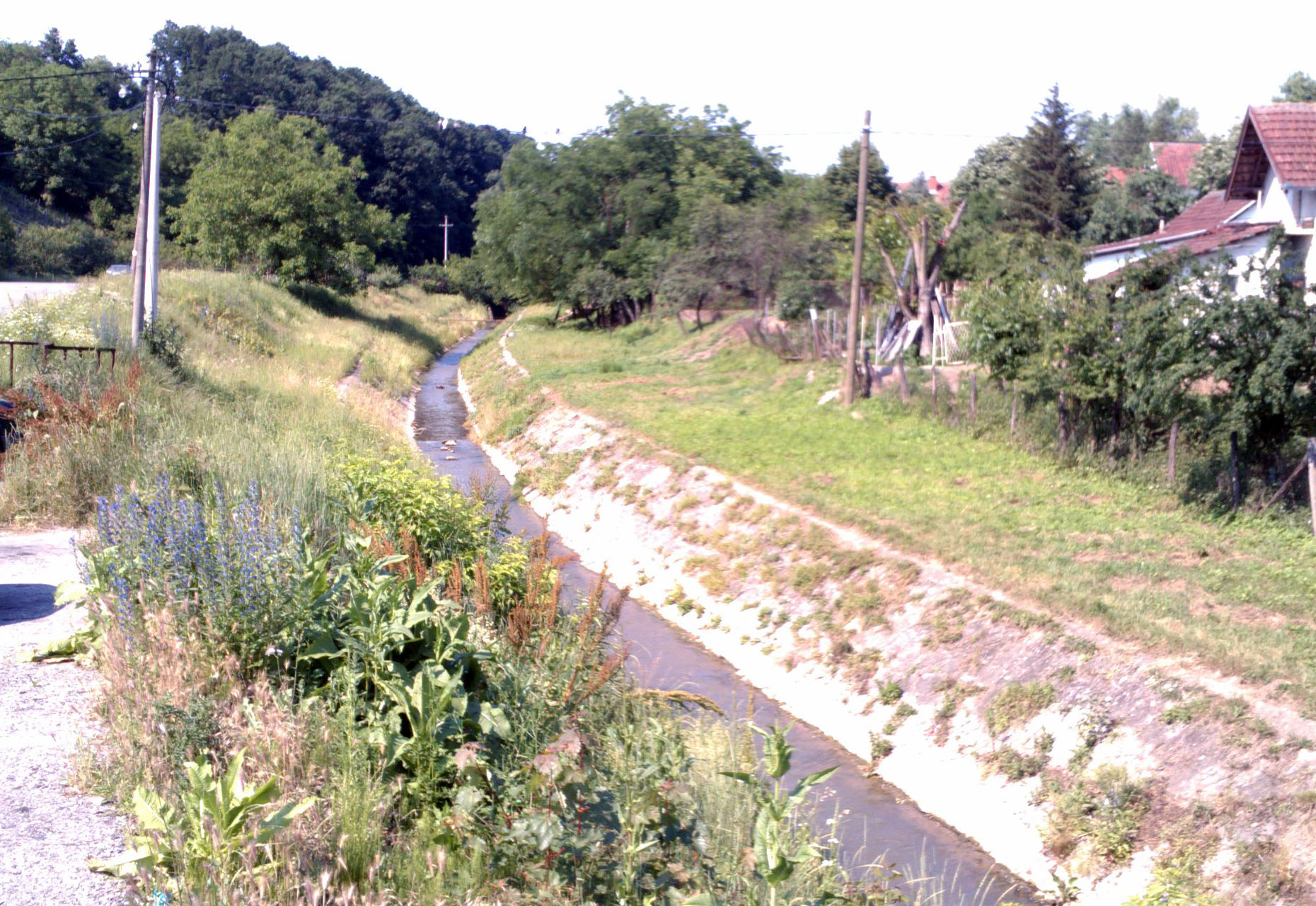 Barajevska reka / Barajevo / June 2015. Српски (ћирилица): Барајевска река на свом току кроз Барајево. Јун 2015.